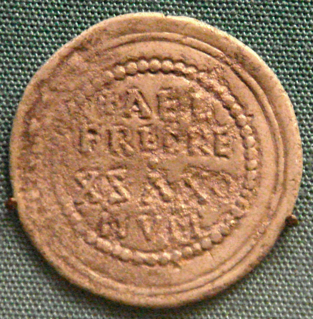 Alfred_the_great_silver_offering_penny_871_899